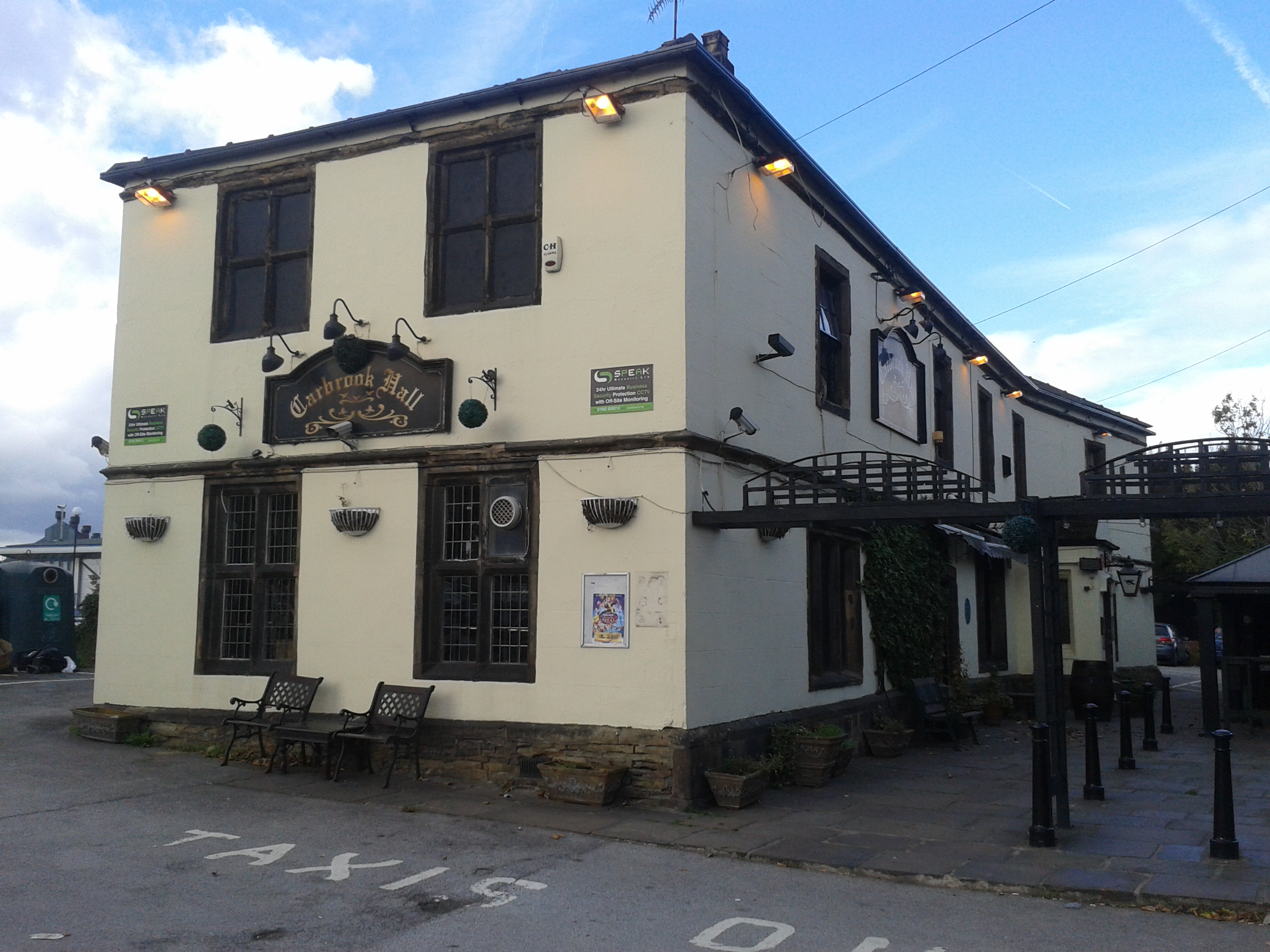 Carbrook Hall, on Attercliffe Common in the Carbrook area of Sheffield. Now a public house.